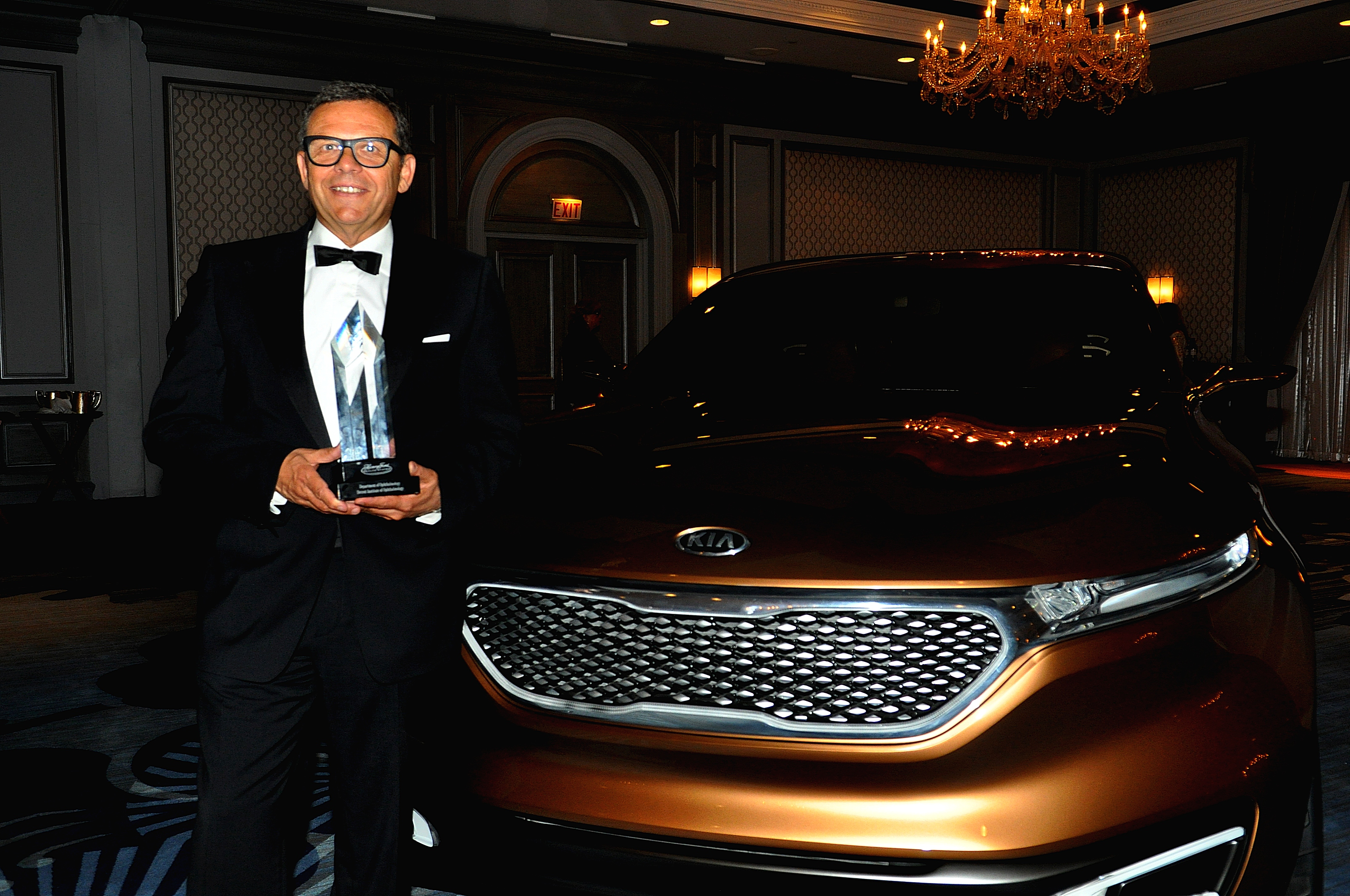 Kia Motor Corp. CEO/CDO Peter Schreyer with his EyesOn Design Lifetime Design Achievement Award.